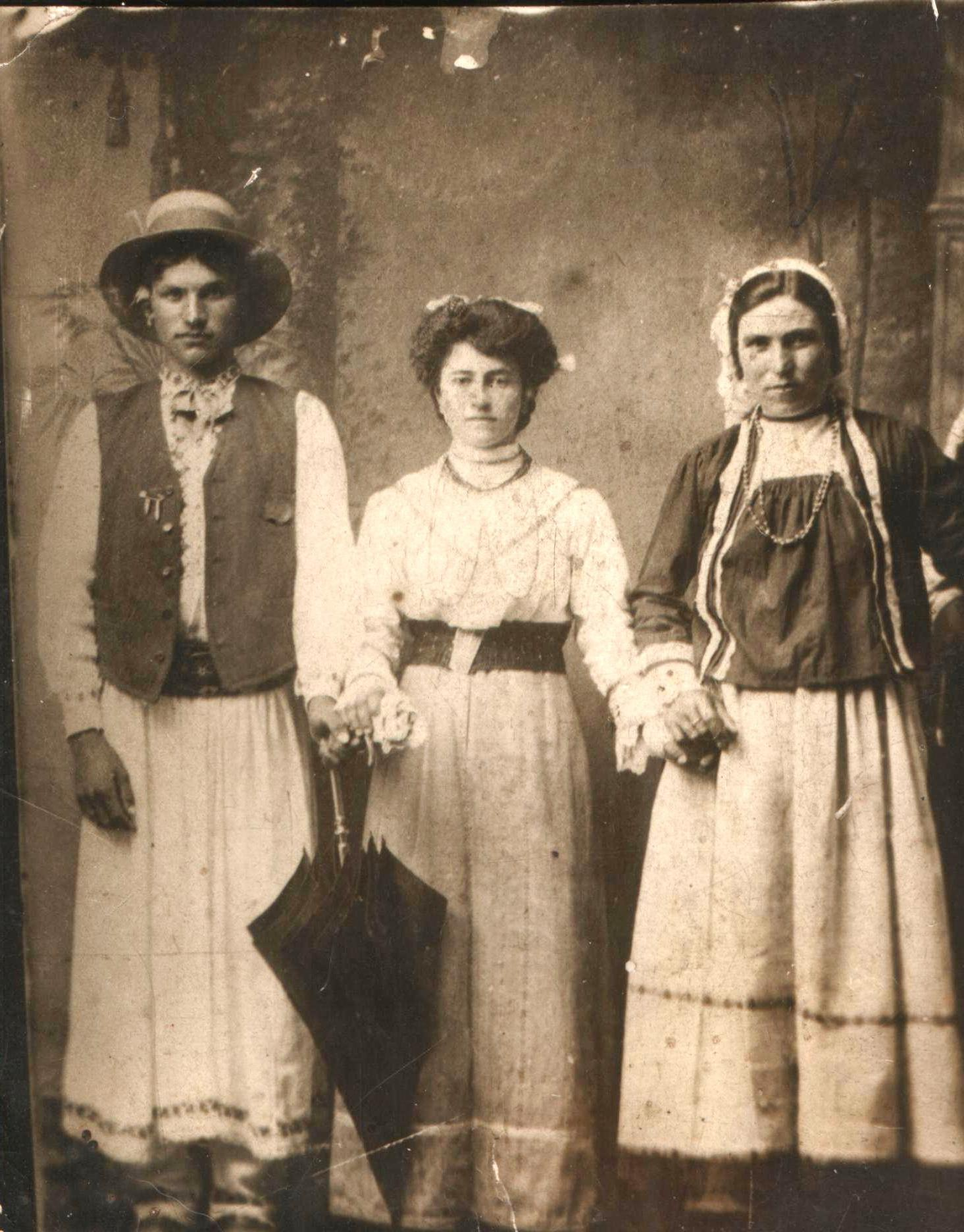 image from Tsibar-Varosh